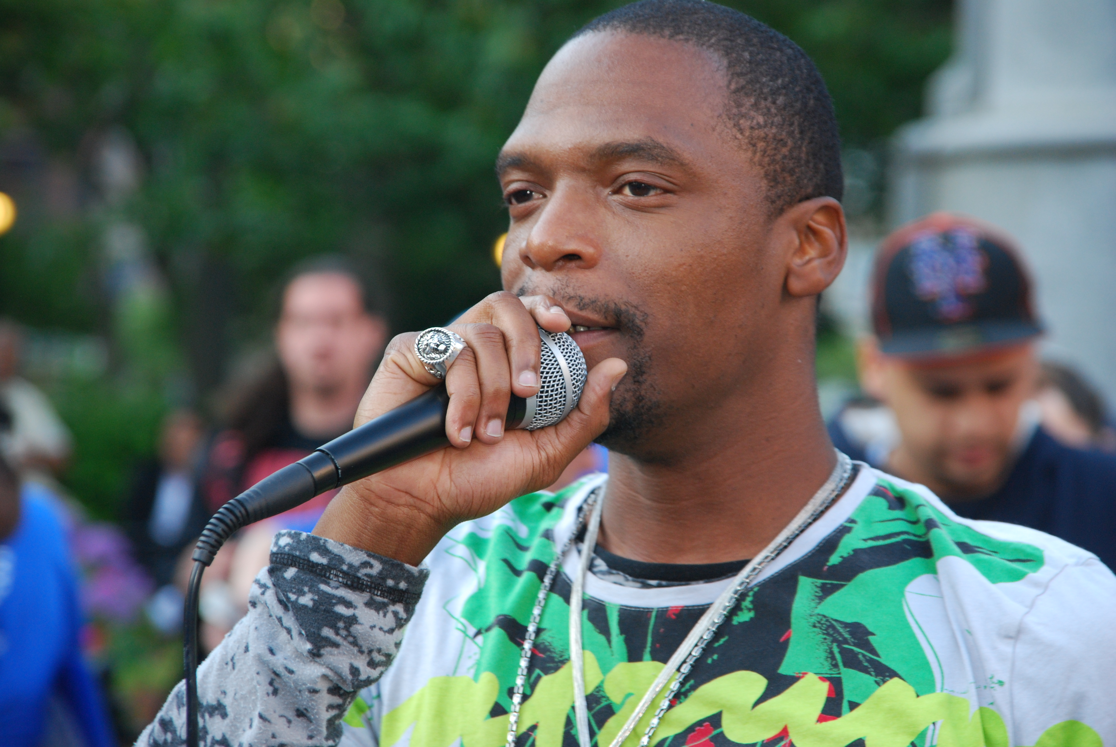 M1 of Dead Prez speaking at a rally for death row prisoner Troy Davis - Union Square, New York City.